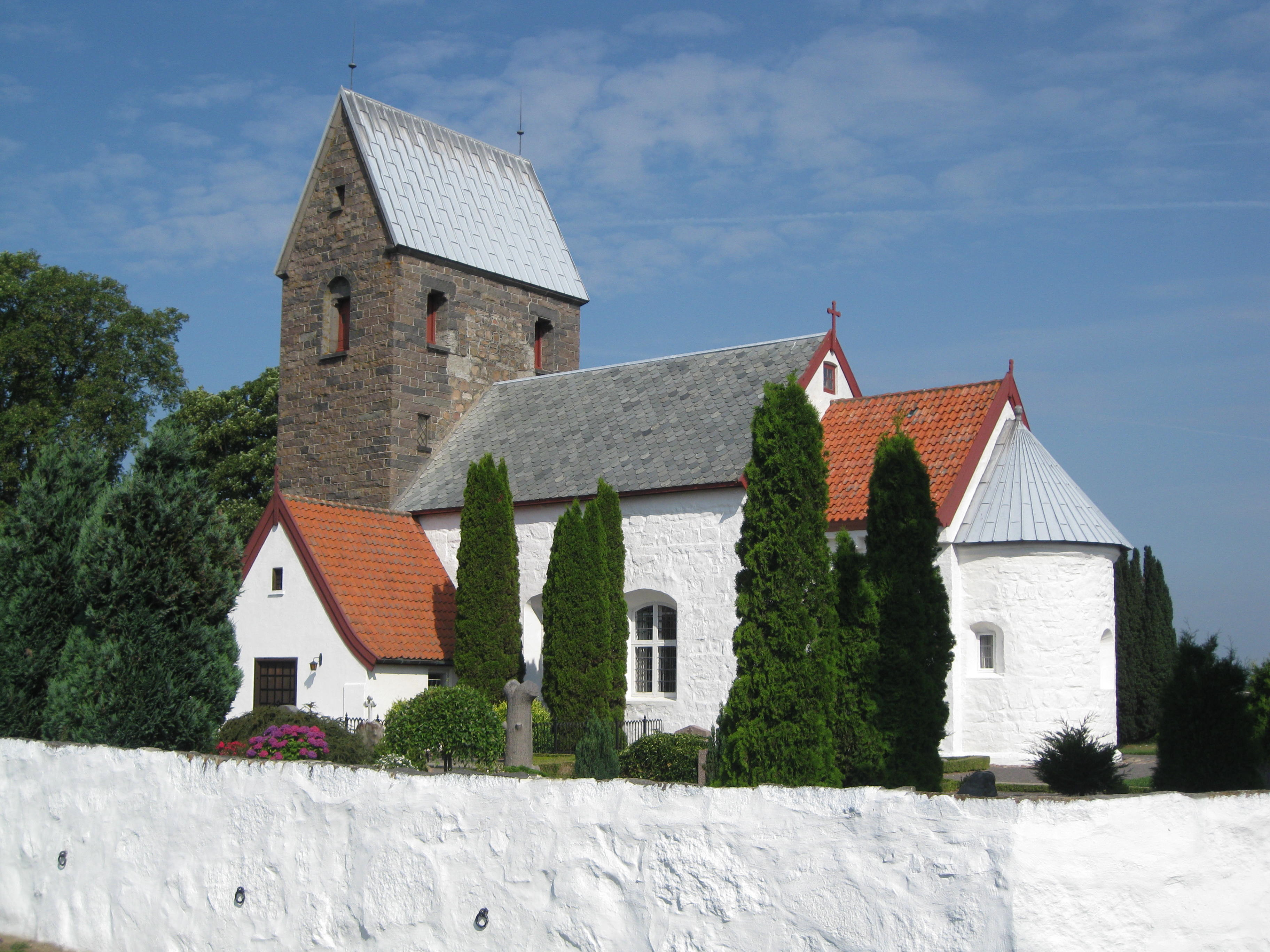 The church "Sankt Knuds Kirke" nearby the village "Knudsker". The village is located on the island Bornholm in east Denmark.